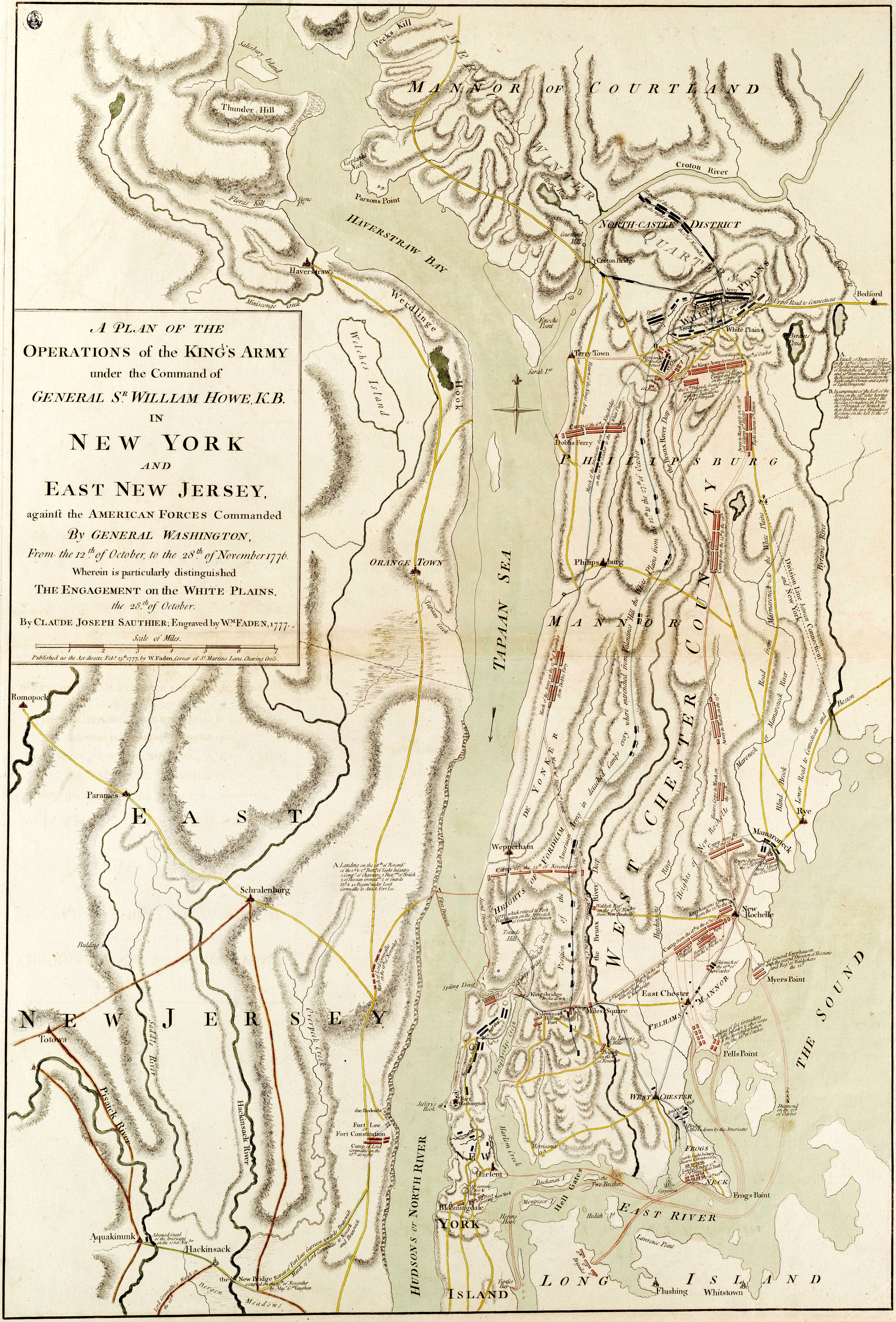 A plan of the operations of the King's army under the command of General Sr William Howe KB in New York and east New Jersey, against the American forces commanded by General Washington, from the 12th of October to the 28th of November 1776. Wherein is particularly distinguished the engagement on the White Plains, the 28th of October. By Claude Joseph Sauthier: engraved by Wm. Faden, 1777. Single sheet. Hand col. engr. Scale: [ca. 1:90 000 (bar)]. Cartographic Note: Ungraduated map. Scale in miles. Contents Note: Notes on actions. Tracks of Carysfoot and Diamond landing troops. G246:3/11 New York & E New J